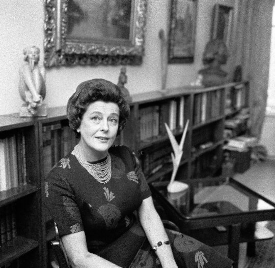 Photograph of the Finnish beauty pageant and actor Ester Toivonen (1914–1979).